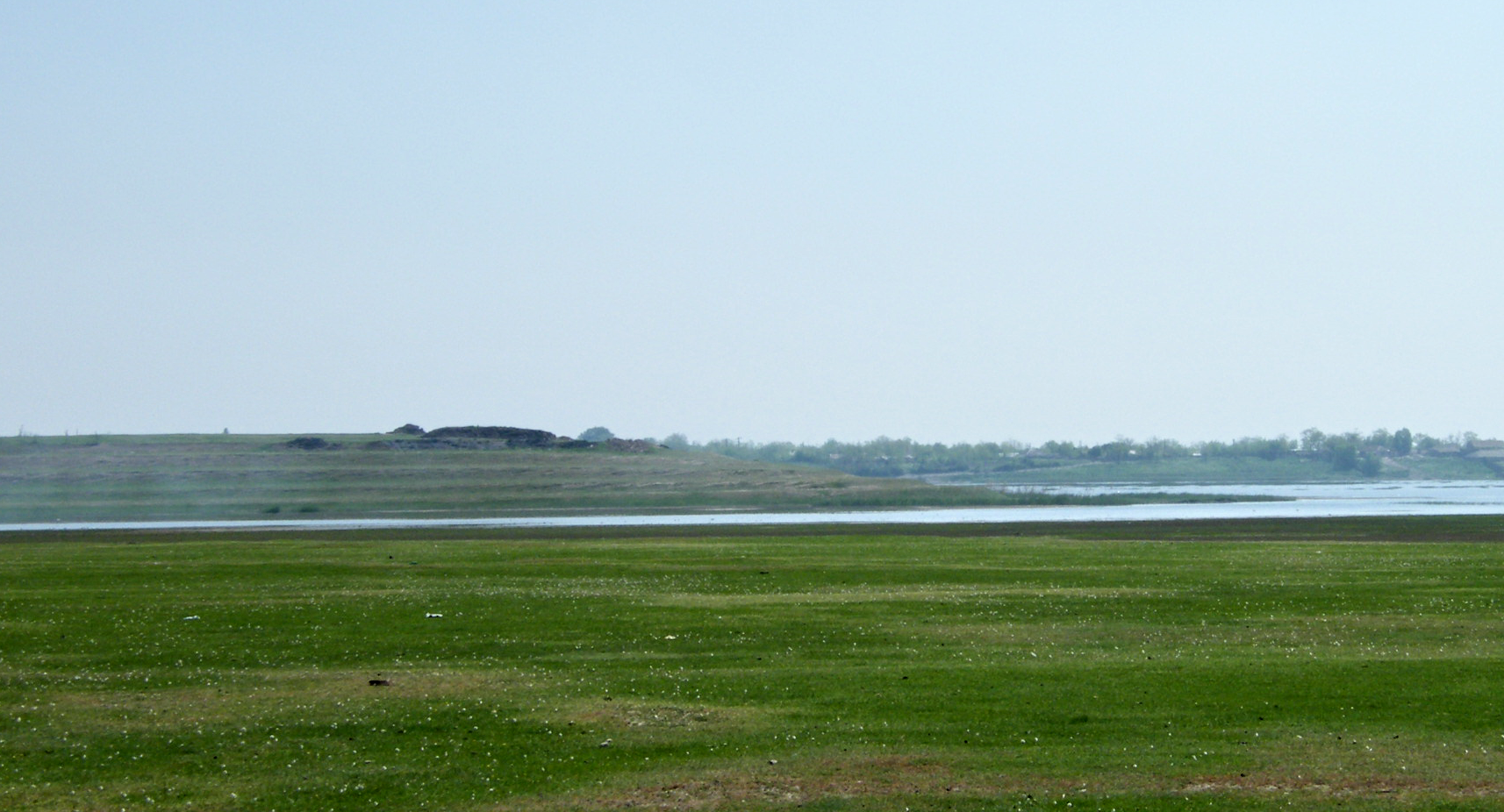 The archaeological site at Lişcoteanca, "Santa Philo"